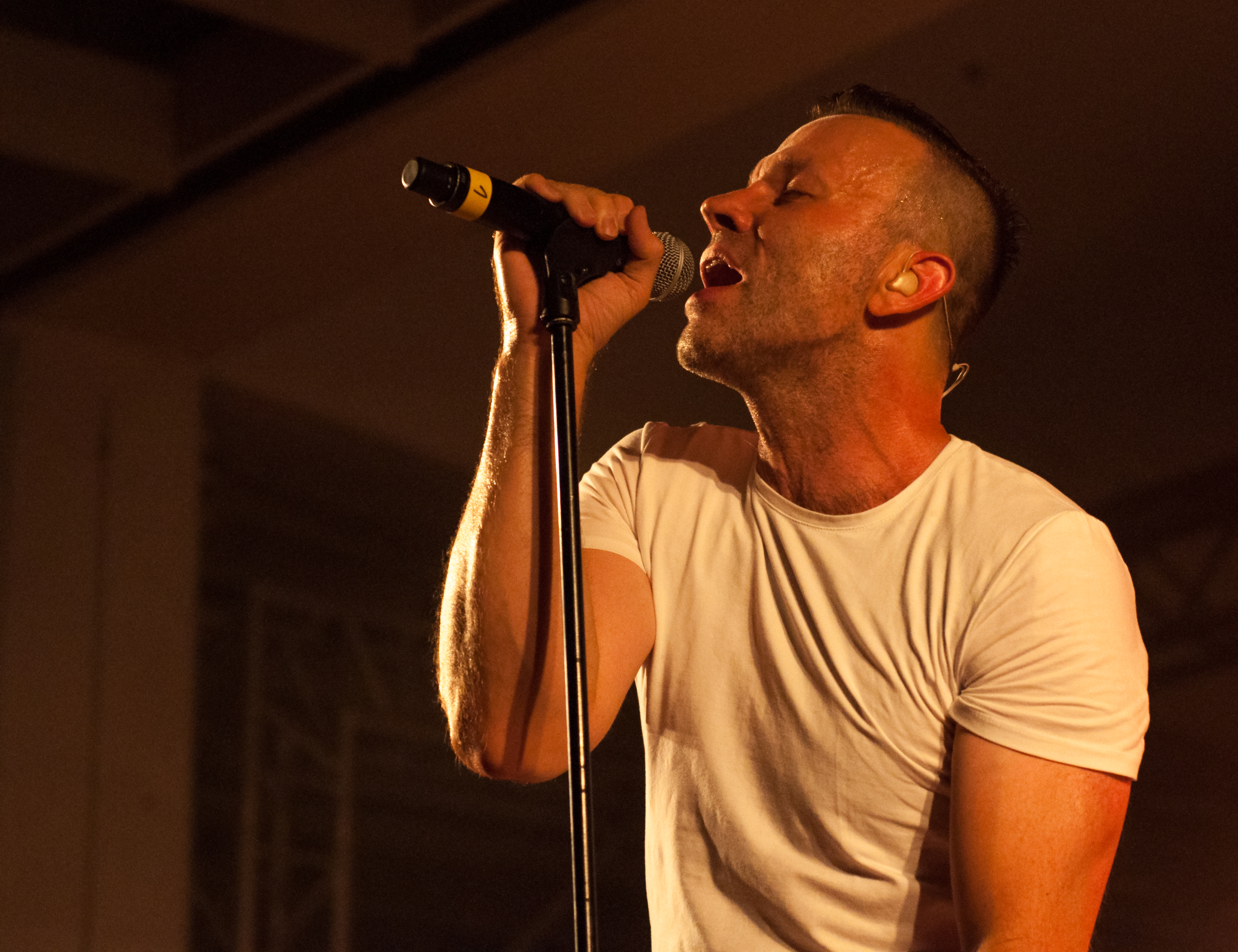 Camouflage at Amphi Festival 2014, Cologne